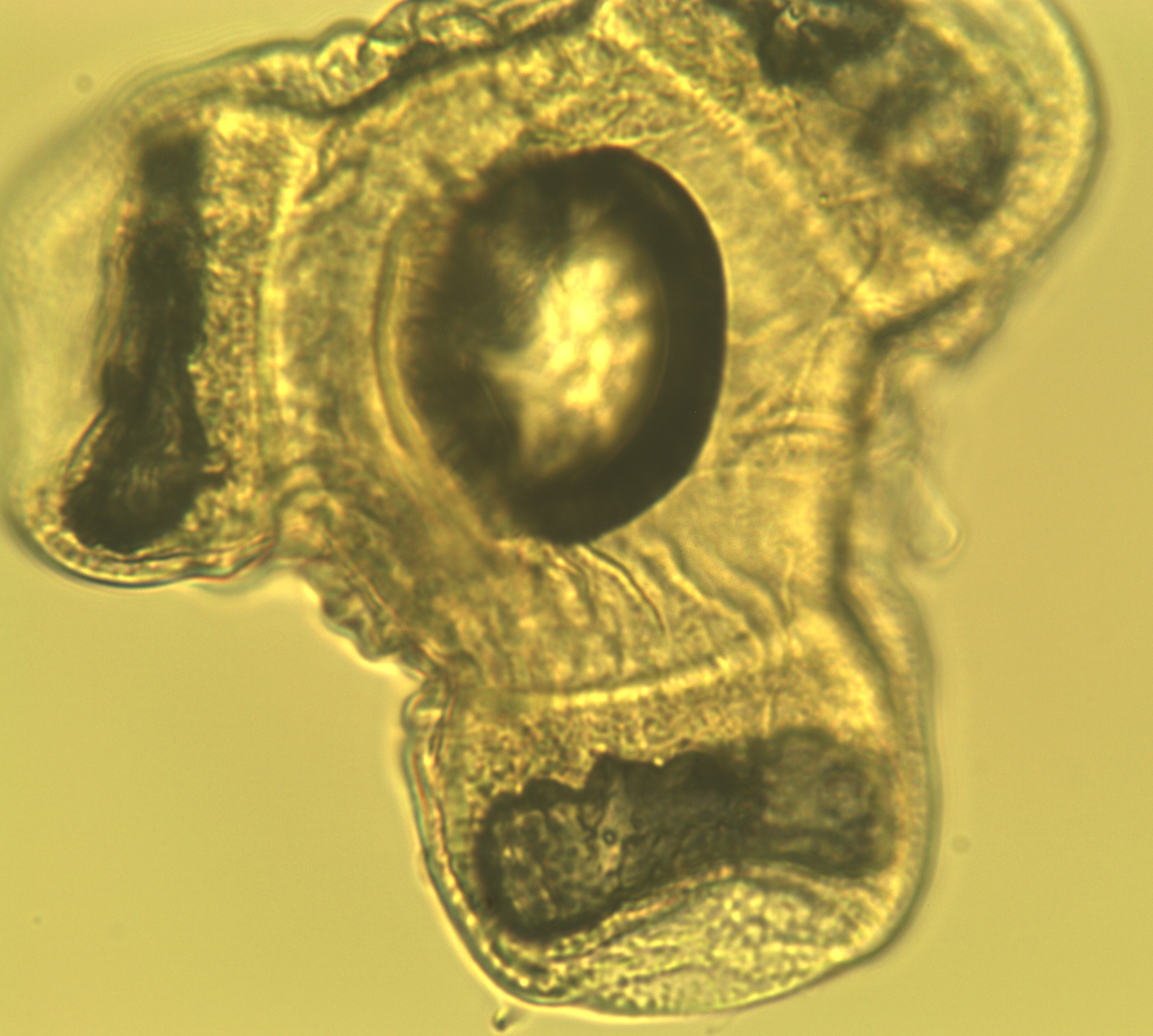 Pollenkorn der Gemeinen Nachtkerze (400x)